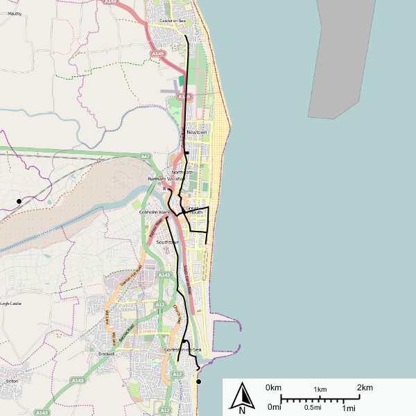 Great Yarmouth Corporation Tramways Legend: *━━━ Primary lines *━━━ Secondary lines *━━━ Tertiary lines